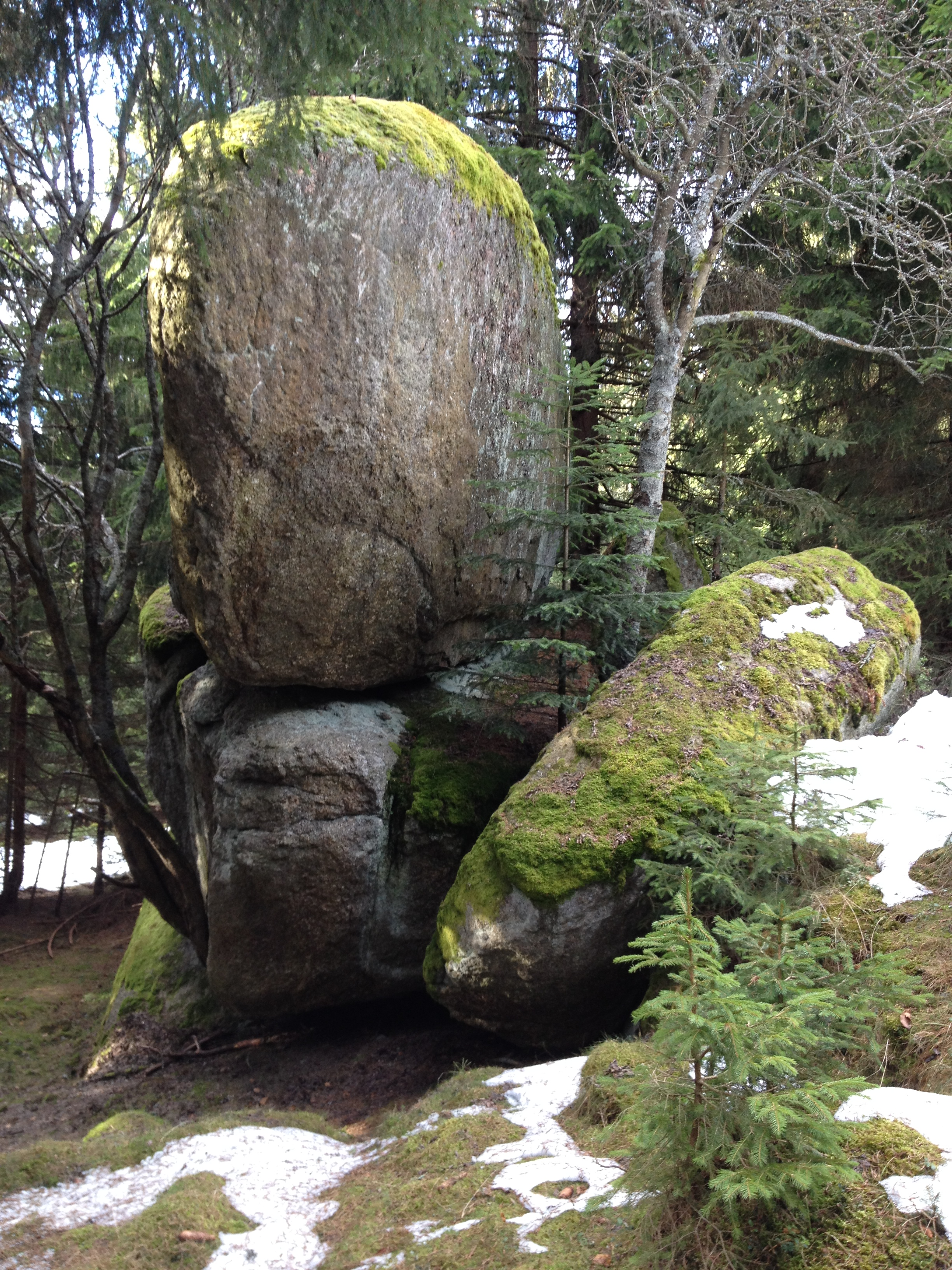 Rock formation which allegedly gave the name to the village of Kamenná Hlava (Stone Head), an abandoned village in the Bohemian Forest, north-east of the municipality of Stožec, Prachatice District, Czech Republic.